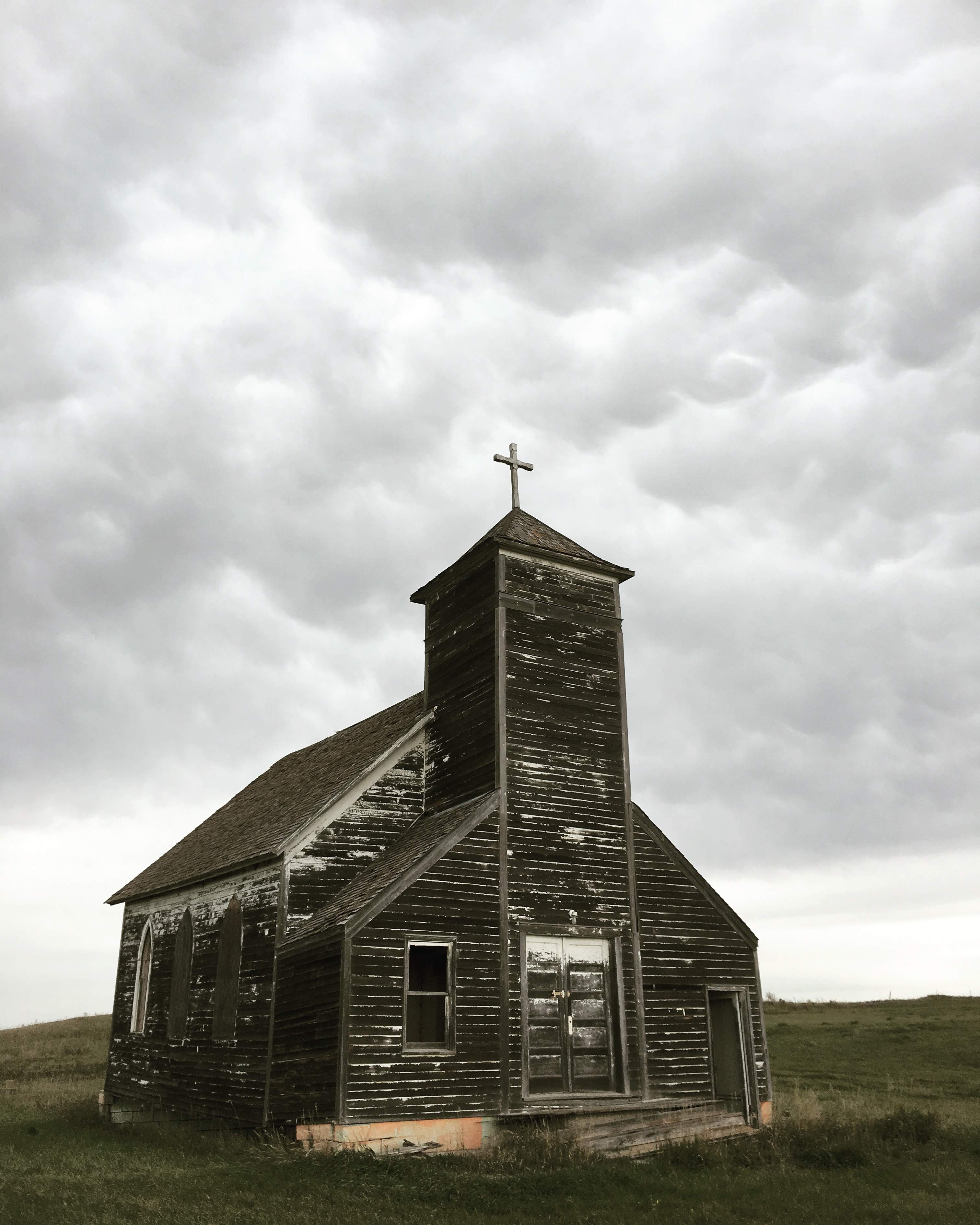 The chuch in Arena, ND